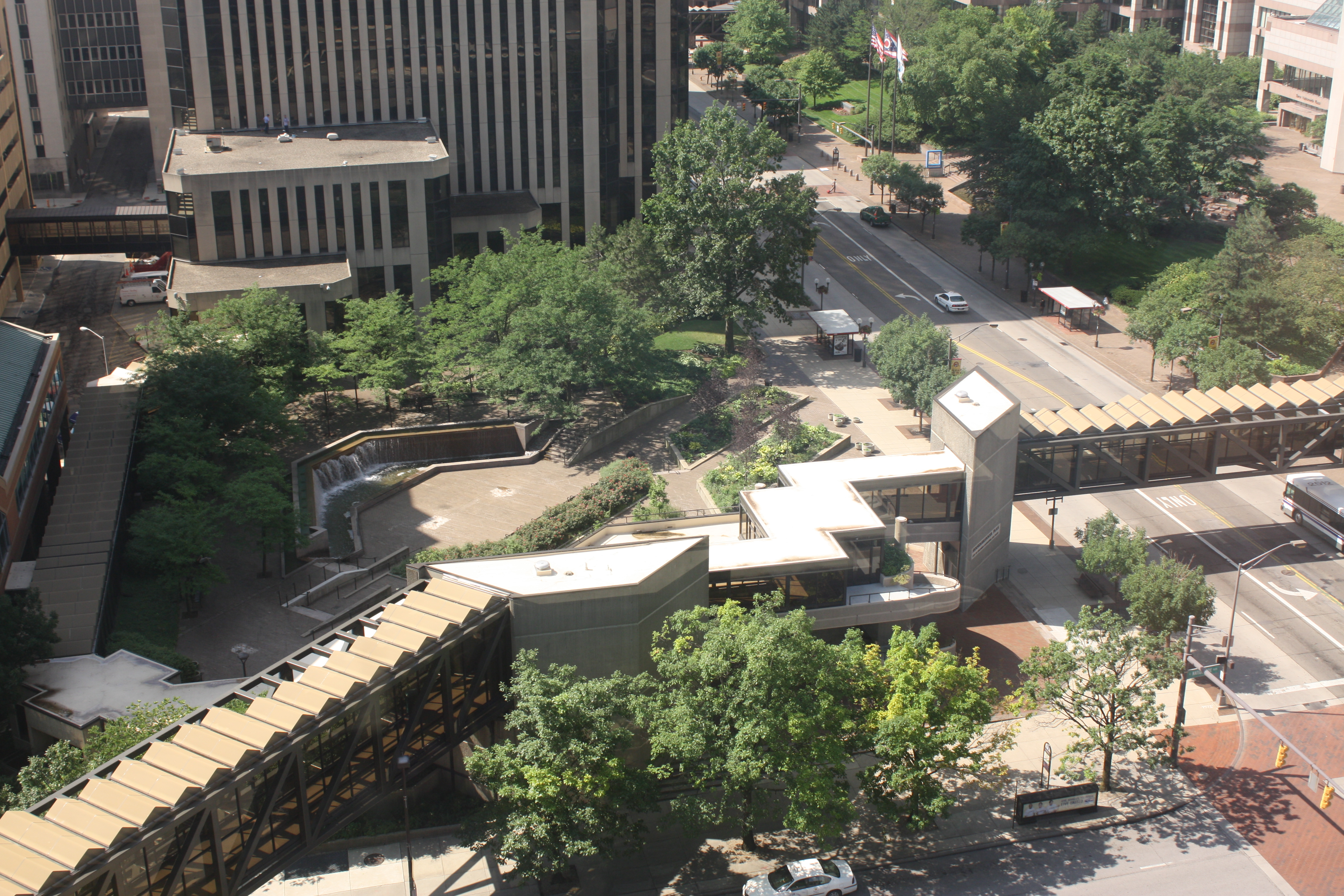 Sensenbrenner Park, Columbus, Ohio. View from the downtown Hyatt Regency.